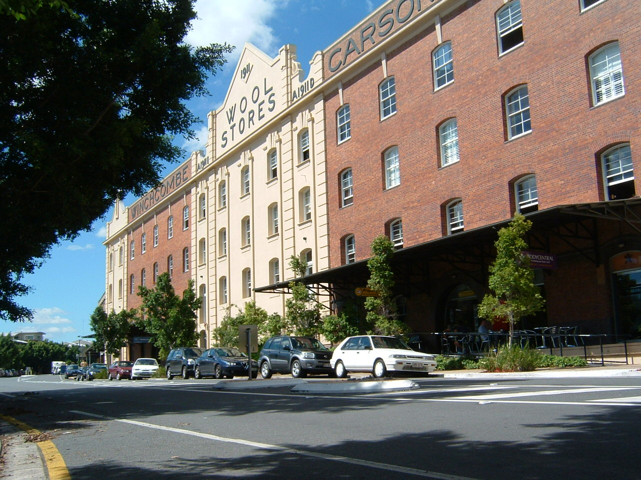 An old wool store on Vernon Terrace in the Brisbane suburb of Teneriffe, Queensland. From the late 1990's, wool stores and factories in the area have been converted into residential apartments.